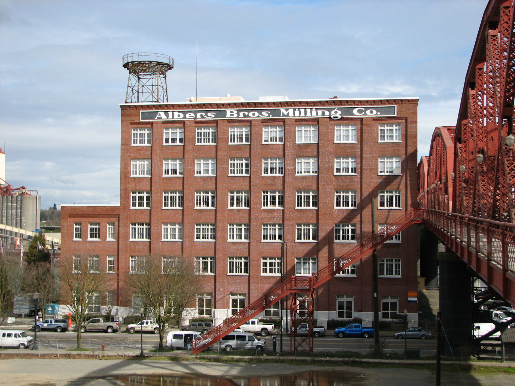 West elevation of the Albers Brothers Milling Company building at 1118-1130 Northwest Naito Parkway in central Portland, Oregon, United States. The building is listed on the US National Register of Historic Places. The building is presently in use for office space. On the right is the Broadway Bridge.